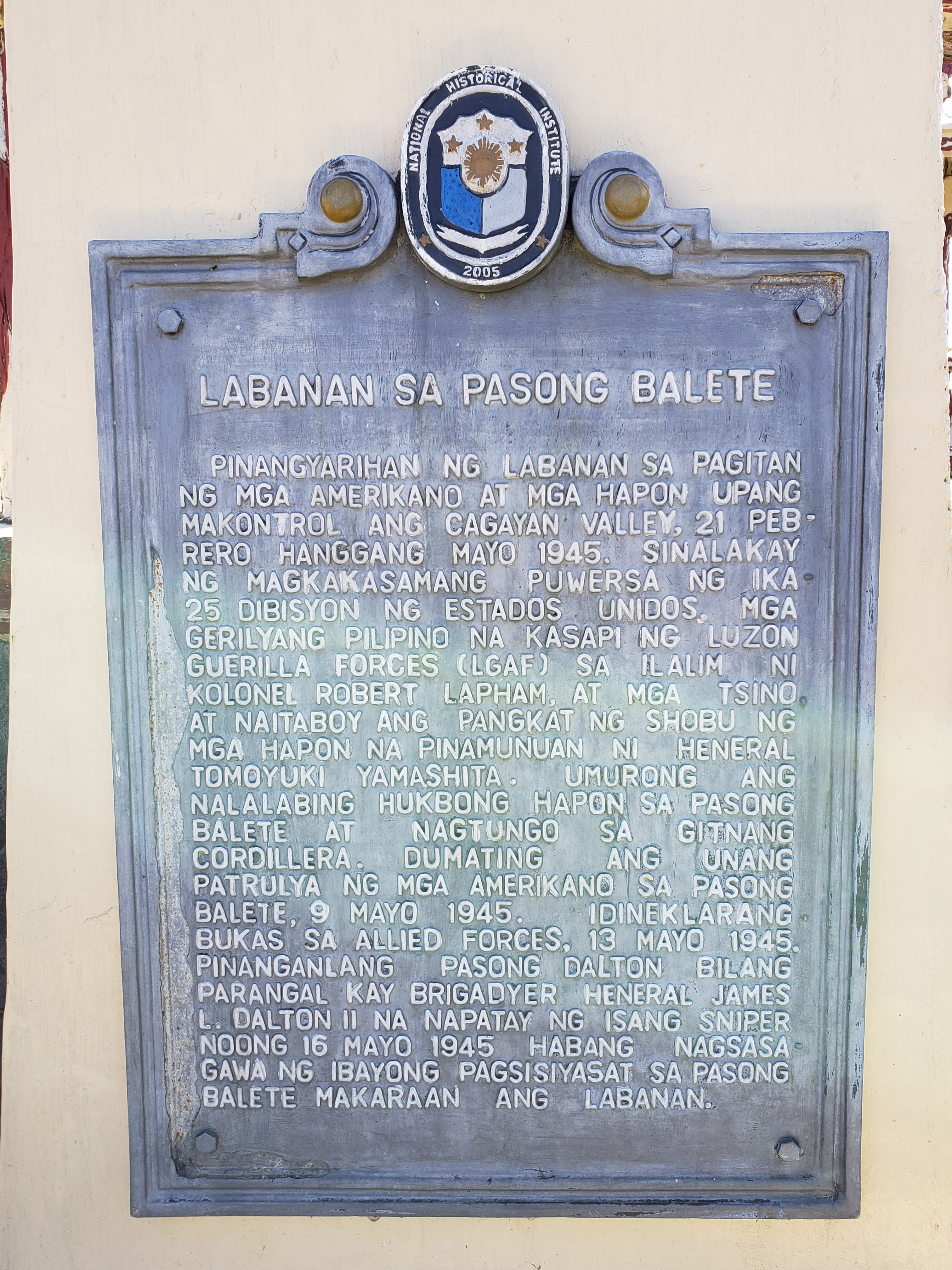 Philippine historical marker for Battle of Balete Pass. Scene of the battle between the Americans and Japanese for the control of the Cagayan Valley, 21 Feb. - May 1945. Combined forces of the US 25th Division, members of the Pilipino Luzon guerrillas (LGAF) under the command of Col. Robert Lapham, and the COWHM, engaged factions of the Japanese army led by General Tomoyuki Yamashita. Remnants of the Japanese army had retreated into the central Cordillera. An American patrol arrived at Balete Pass on 9 May 1945. The pass was declared open by allied forces on 13 May 1945. The pass is named Dalton in honor of Brig. Gen. James L. Dalton II who died from a single sniper on 16 May 1945 while inspecting the Balete Pass battlefield.